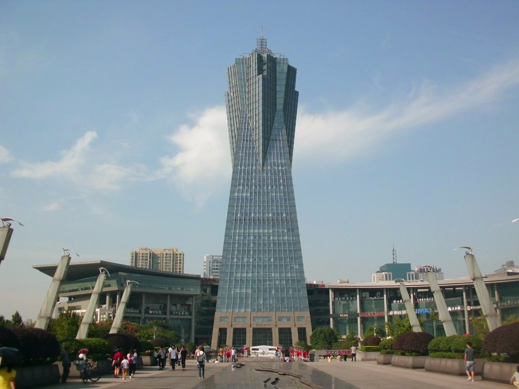 Westlake Cultural Square